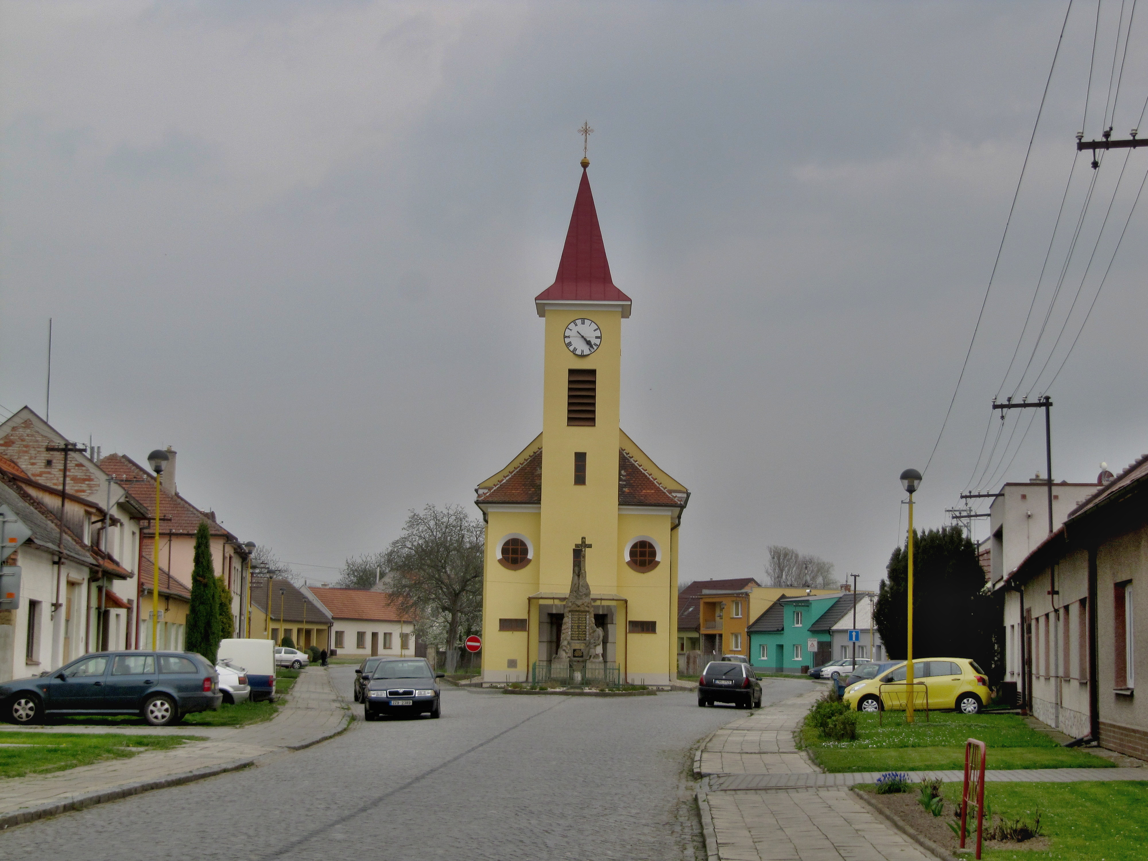 Kostelany nad Moravou in Uherské Hradiště District, Czech Republic. Common and church.